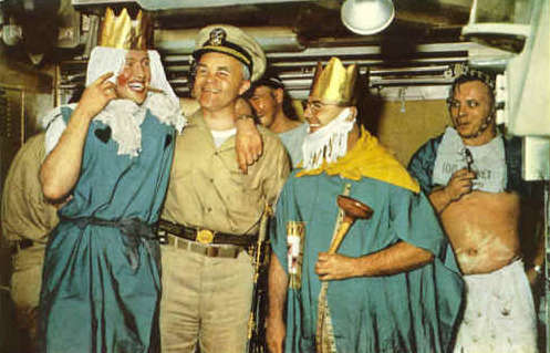 The Crossing the Line Ceremony is a British tradition that goes back some 200 years. The basic premise of this tradition is that the instant a ship crosses the equator, all become equal save one class of seaman - the Shellbacks! On 24 February 1960, USS Triton crossed the equator for the first time and by so doing, entered the Domain of Neptunus Rex, who instantly appeared accompanied by the roar of a water slug. In this photo, Captain Edward L. Beach welcomes King Neptune (FTC Loyd Garlock), Ruler of the Raging Main; his cigar-smoking Queen (TM2 Wilmot A. Jones), Davy Jones (FT2 Ross MacGregor); and the Royal Baby (EN2 Harry Olsen). Captain Beach pleaded for mercy for the lowly pollywogs (a standard request) and King Neptune gave him the standard response, "NONSENSE." All wogs were brought before the Bar of Watery Justice and all were, of course, found guilty and subsequently initiated into the Solemn Mysteries of the Ancient Order of the Deep.